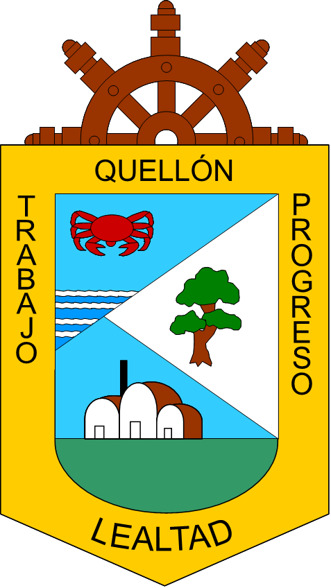 Coat of arms of Quellon commune (Chile)